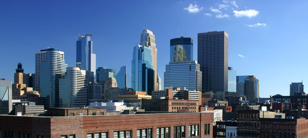 Downtown Minneapolis, Minnesota seen from the Warehouse District